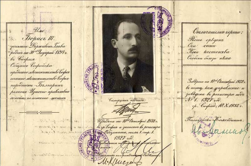 ID card of Boris III of Bulgaria.